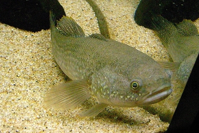 Mud gudgeon (Ophieleotris aporos) at the Enochima Aquarium, Japan